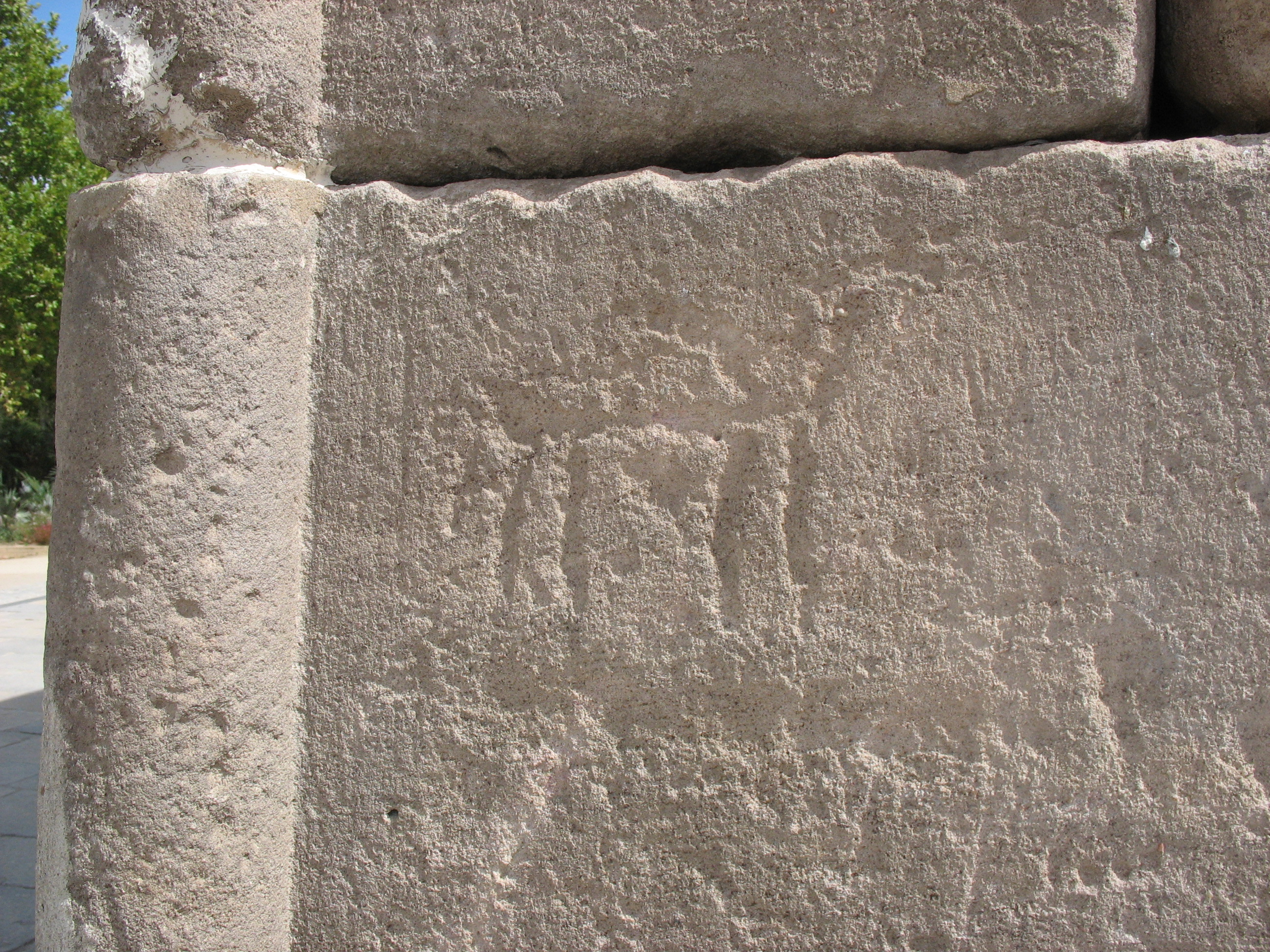 Dromedary, an ancient graffiti at the external wall of the egyptian Temple of Debod, Madrid, Spain.